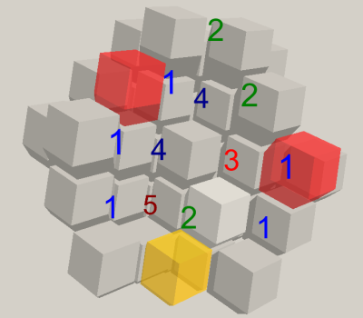 screenshot of a Minesweeper variant in 3D